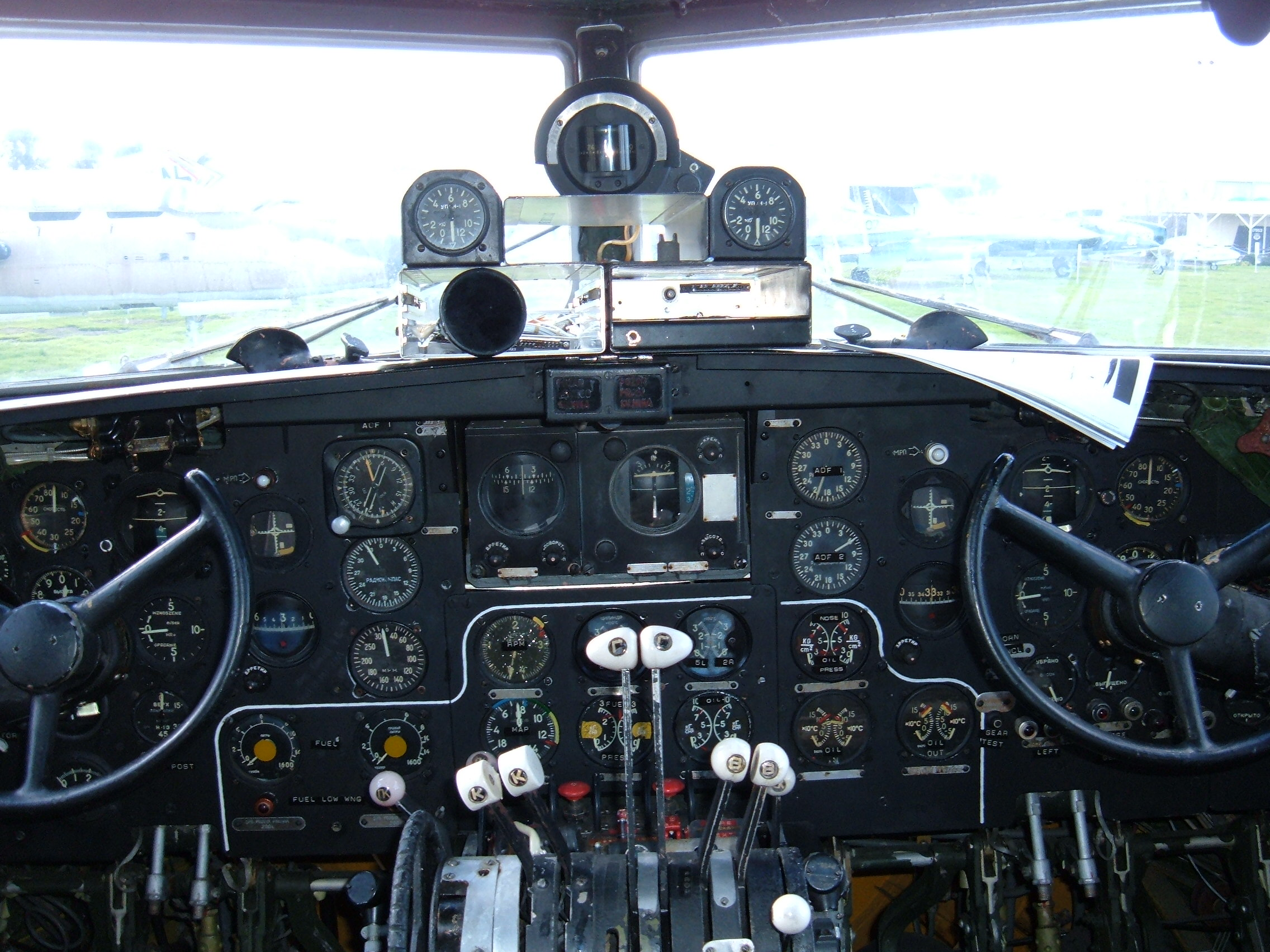 Closeup of the cockpit console of an Ilyushin Il-14 "Crate" on display at the Pacific Coast Air Museum in Santa Rosa, California.